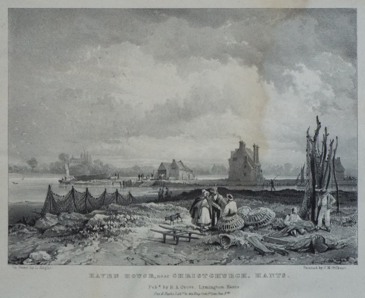 View from Mudeford Spit across The Run at the mouth of Christchurch Harbour, showing the Priory, Customs Preventive Station and Haven House. The Haven House Inn is obscured by nets hanging on the spit in the foreground.